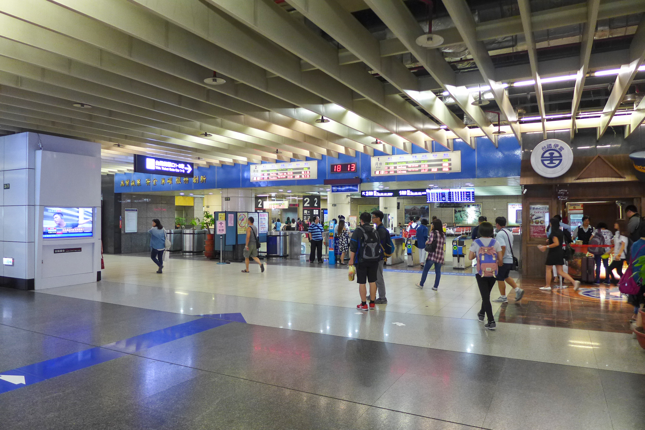 Taiwan Railways Banqiao Station Gate